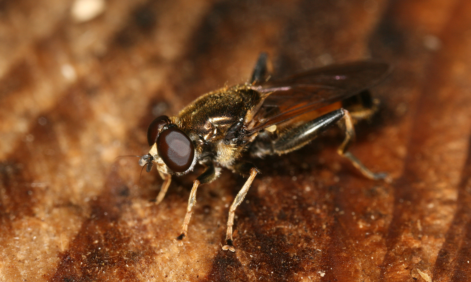 Xylota segnis on wood.